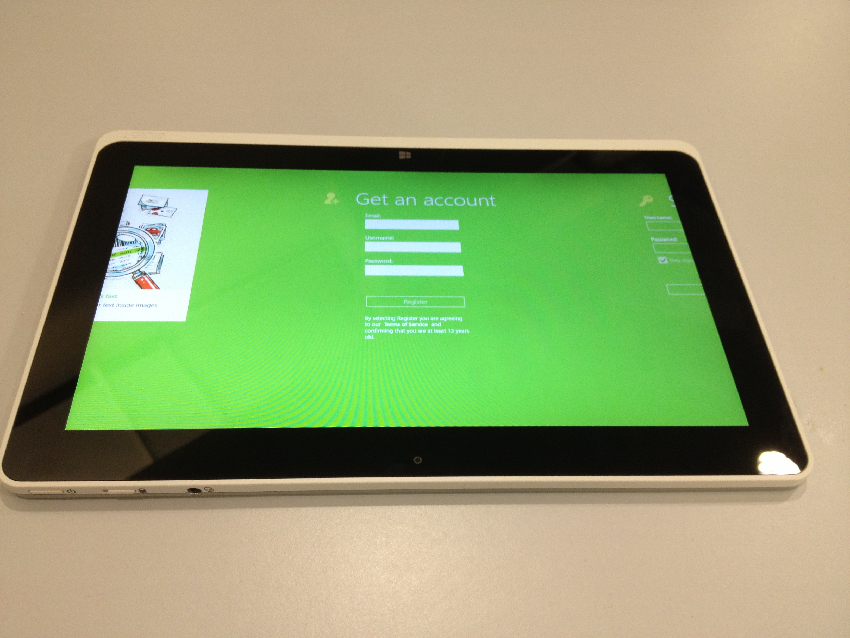 ICONIA W5 running Windows 8.